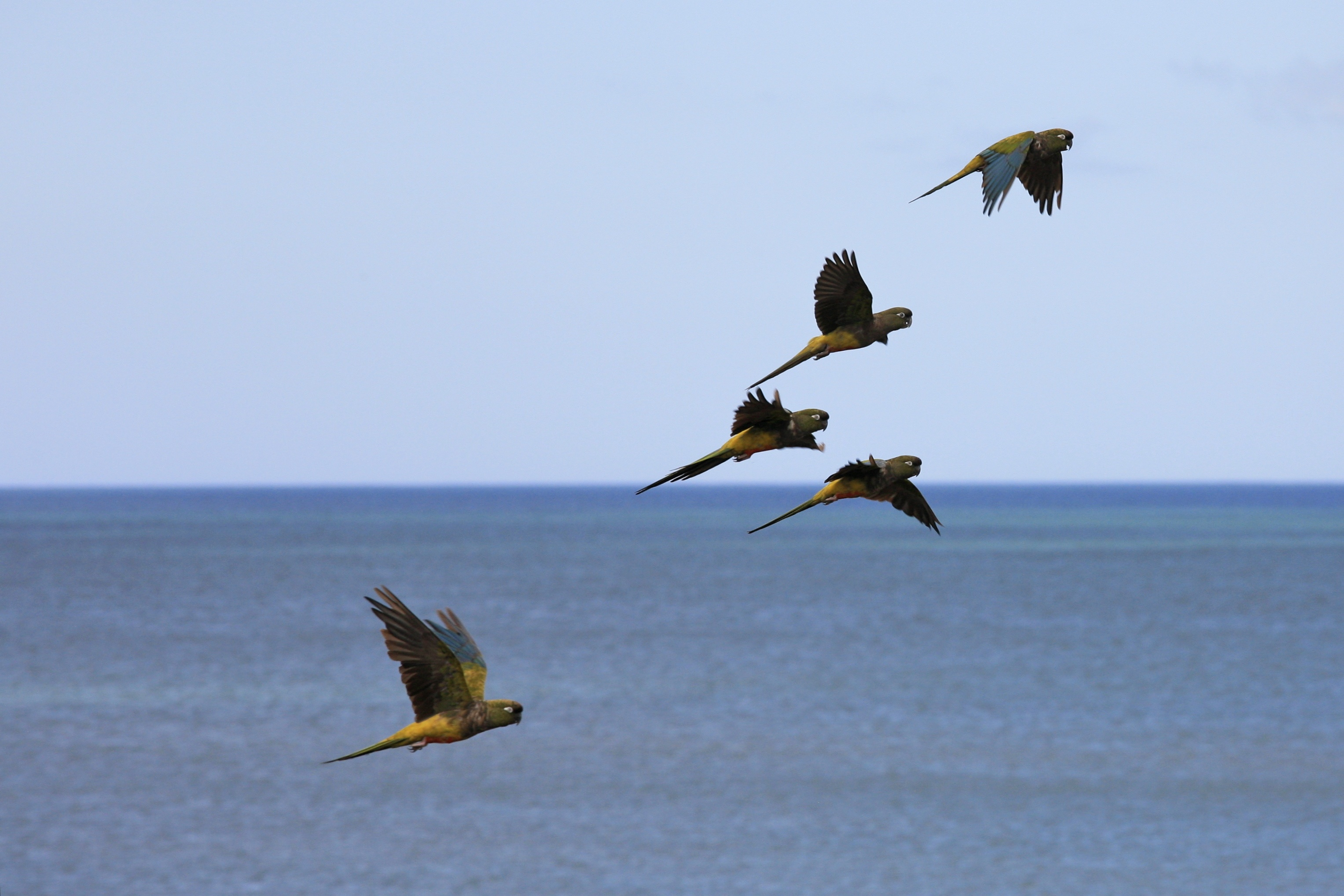 Five Burrowing Parrots flying in Quequén, Buenos Aires, Argentina.